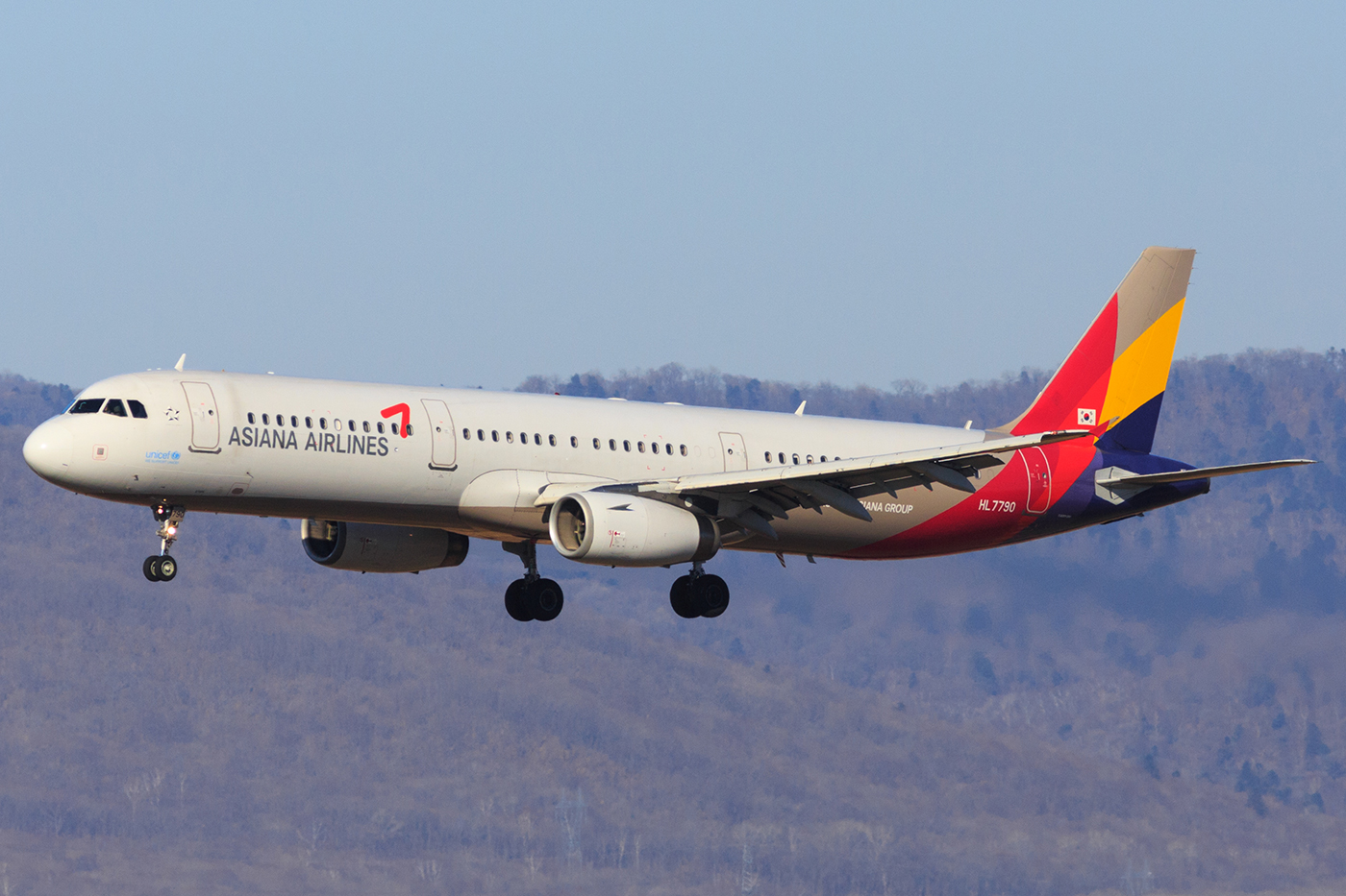 Asiana Airlines Airbus A321 at Vladivostok Airport